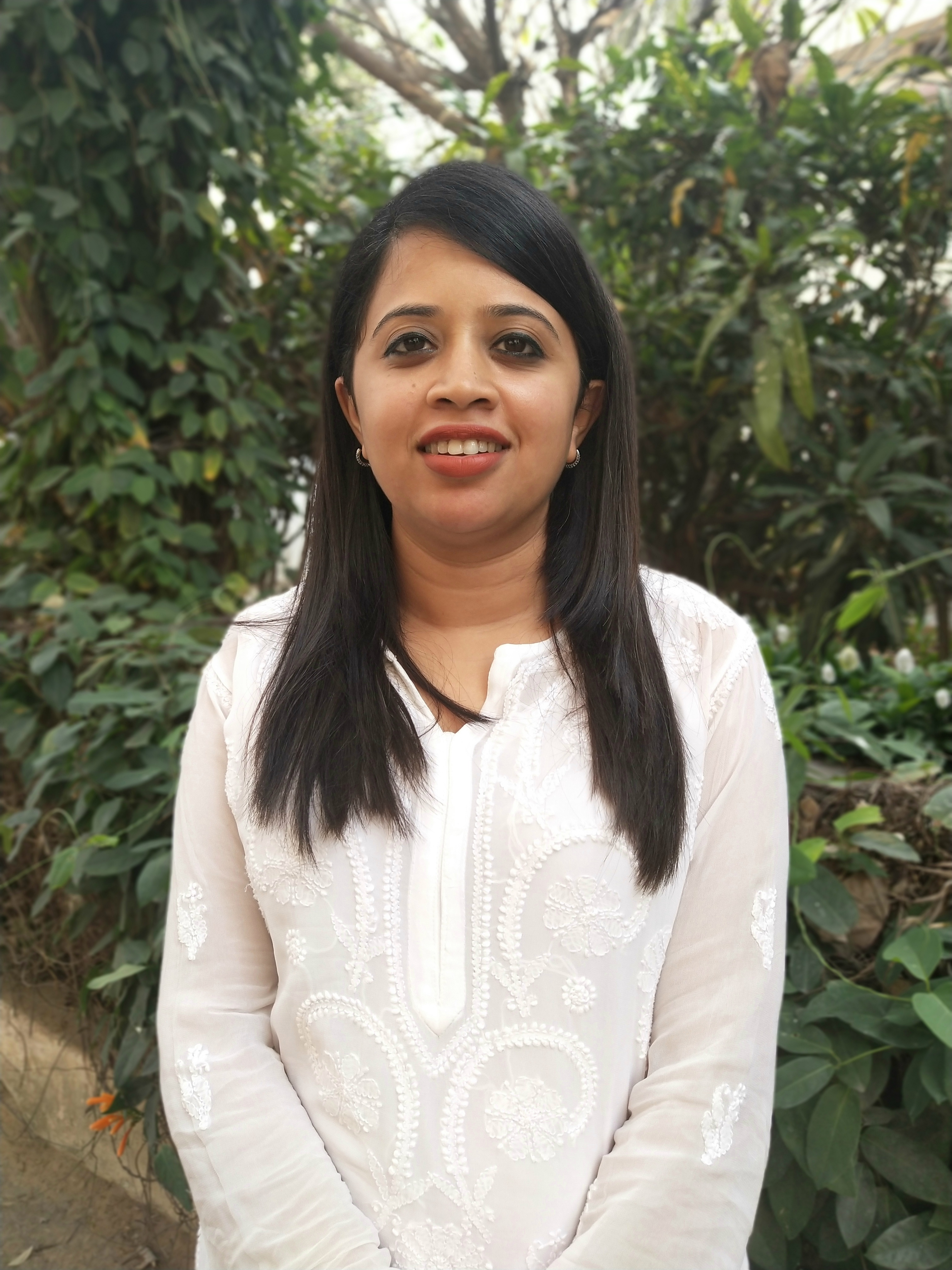 Dhanya Rajendran, founder-editor of The News Minute at the 15th national meeting organised by the Network of Women in Media, India in Bengaluru on February 2020.